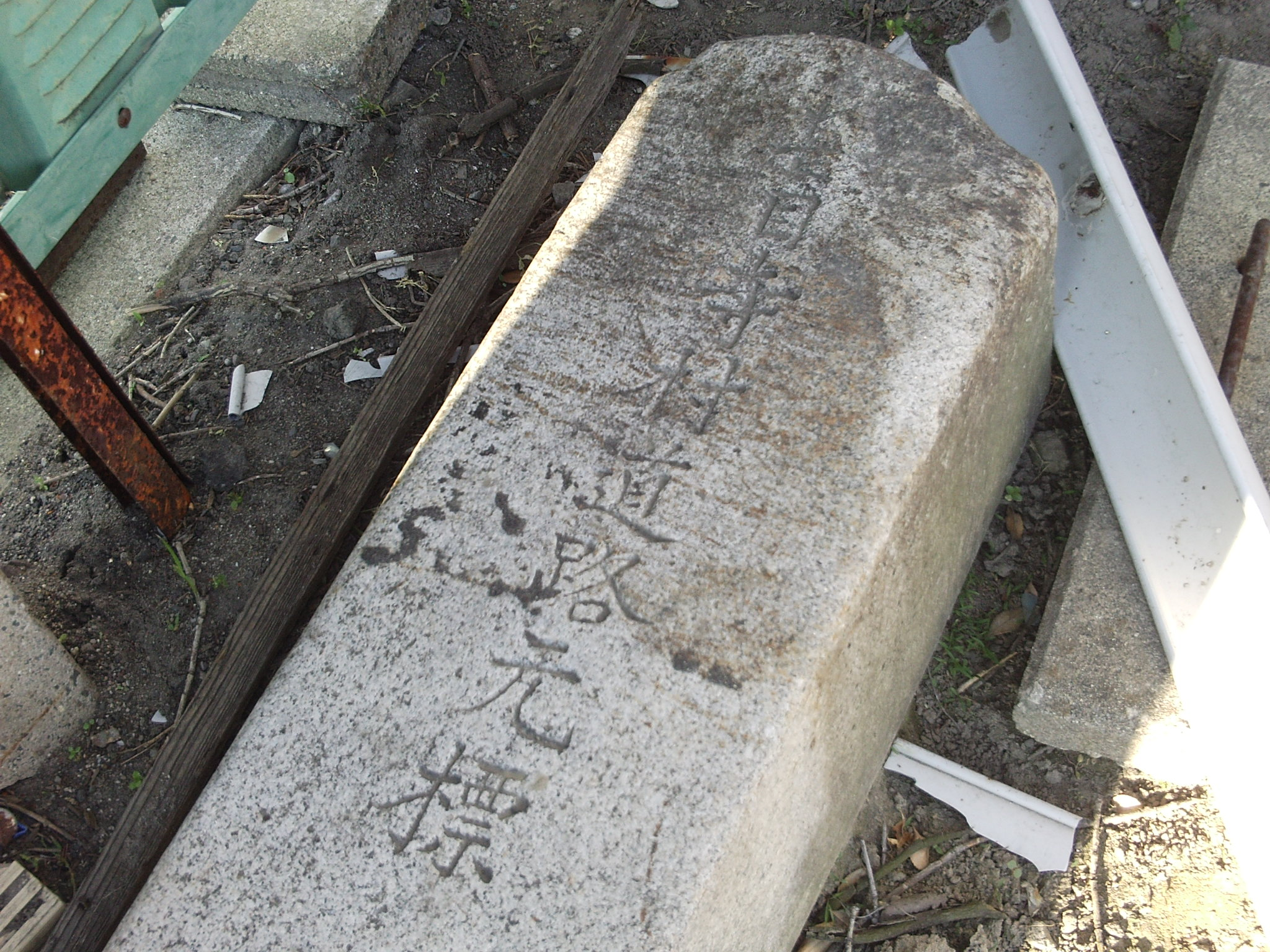 Kilometre zero of Jimokuji village. (Jimokuji village, Ama-gun, Aichi.)